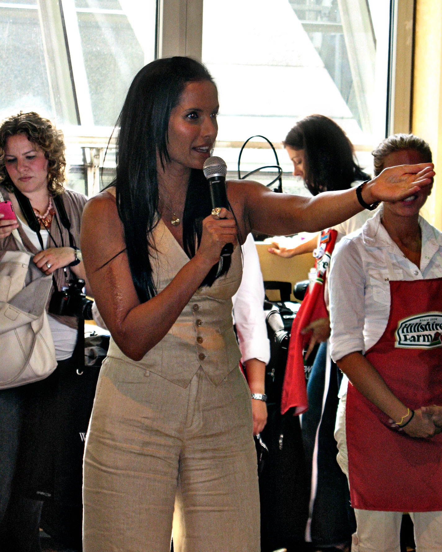 Padma Lakshmi with a microphone in an expo hall, addressing the audience. Her 7-inch scar is in view.